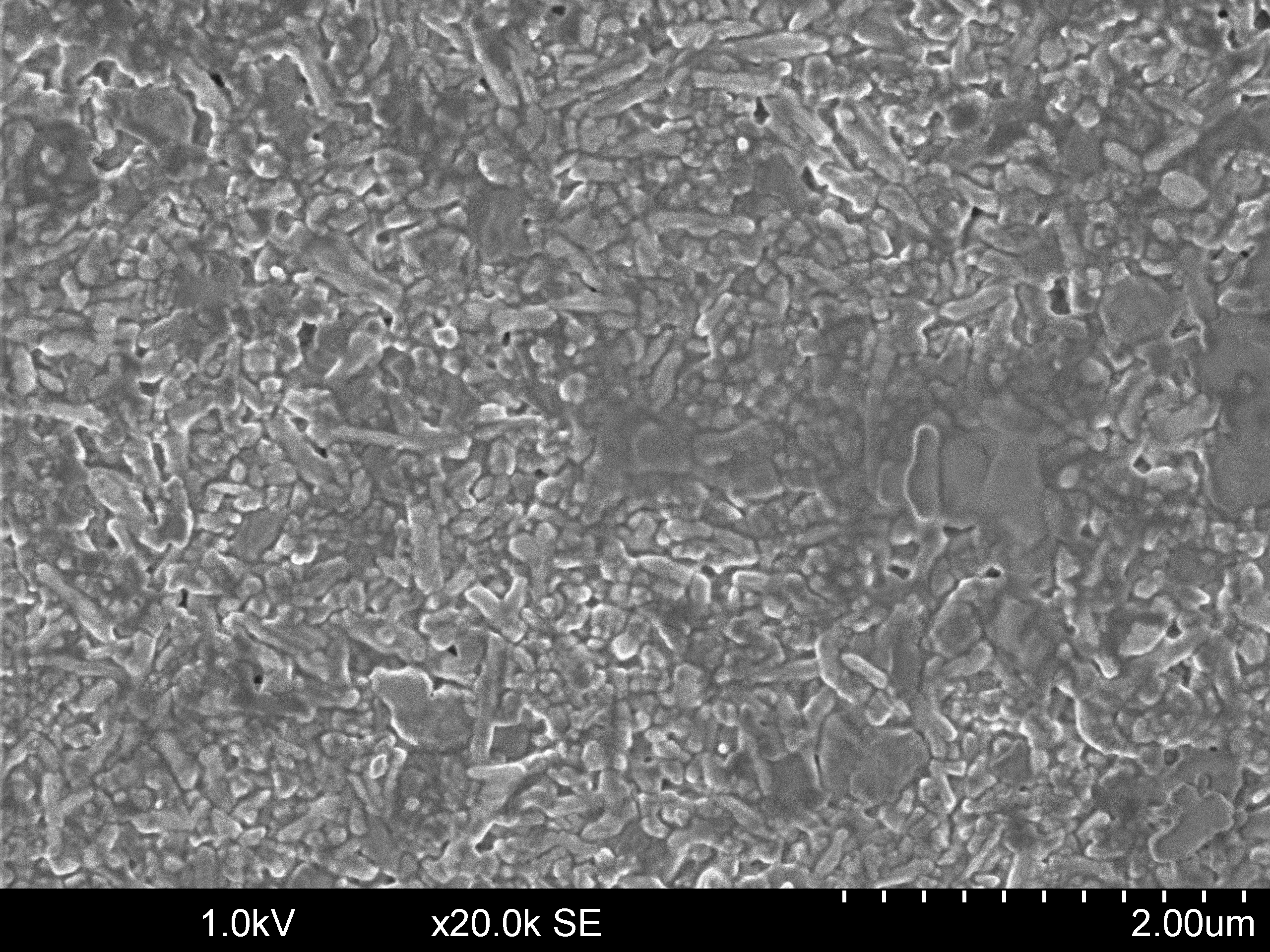 Surface of a floppy disk at 20,000 times magnification, showing magnetic domains